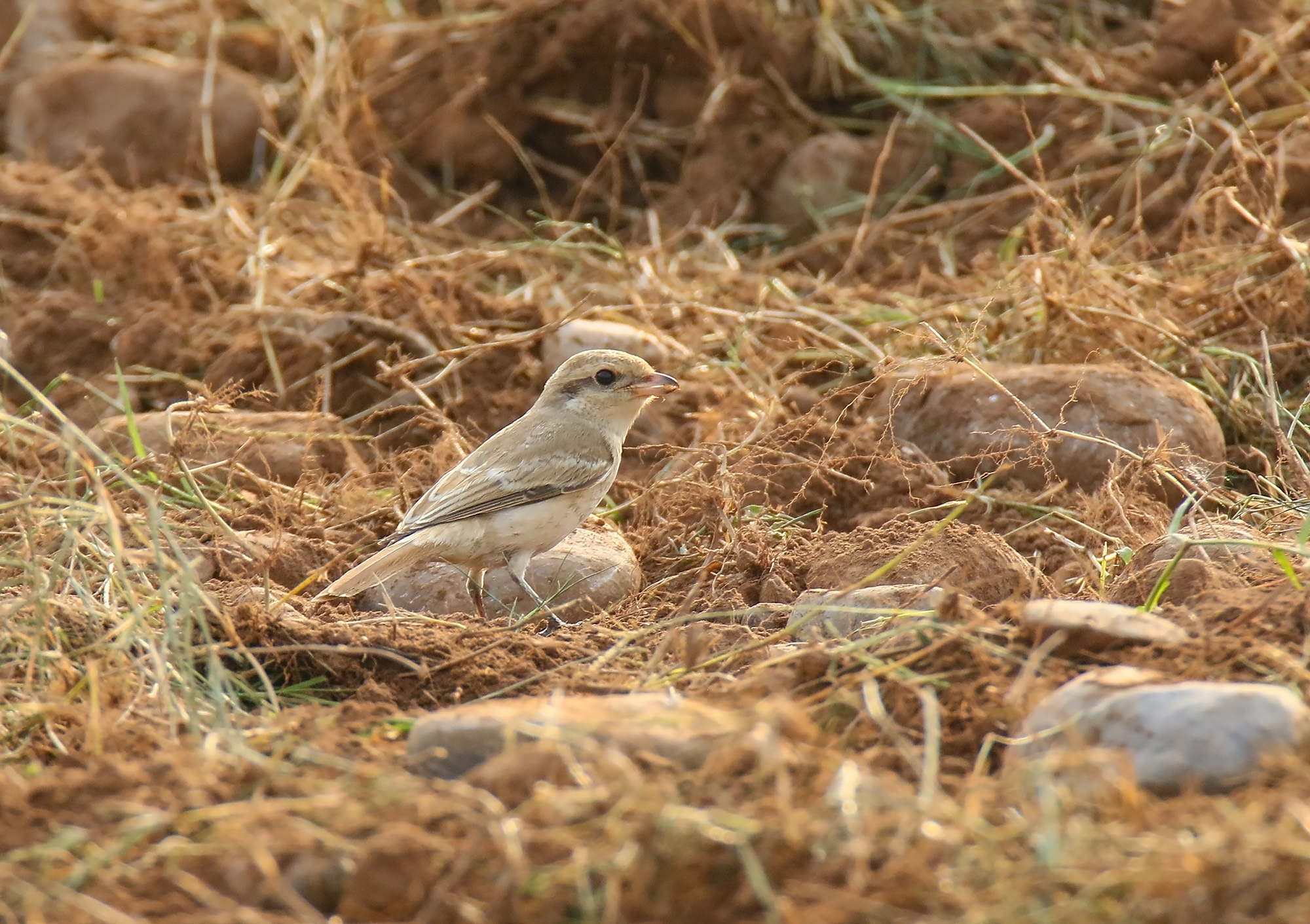 Rufous-tailed Shrike (Lanius isabellinus) captured at Bani Gala, Islamabad, Pakistan with Canon EOS 70D